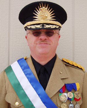 Official state portrait of Kevin Baugh, the President of the Republic of Molossia.